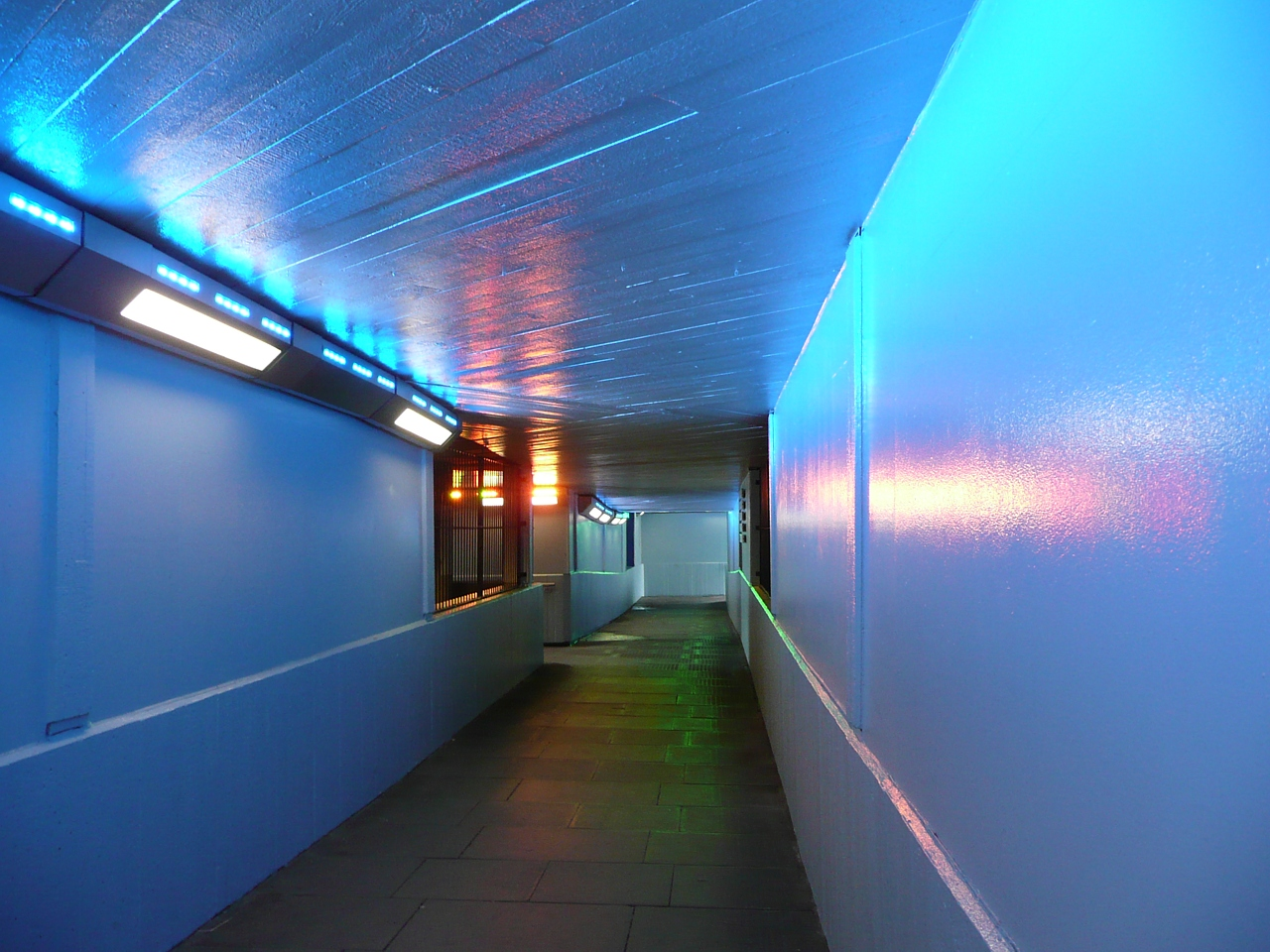 Passageway, Waterloo (between the bridge and the bullring, running approximately southwest-northeast)